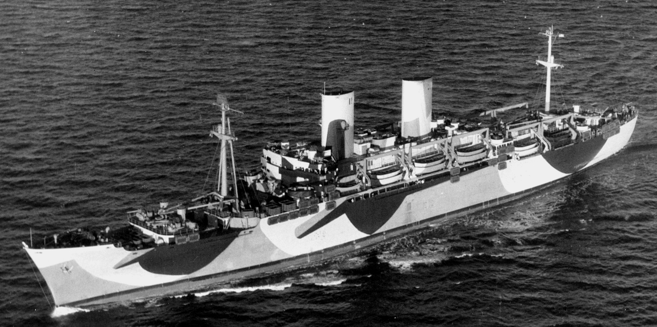 The U.S. Navy troop transport USS General W. P. Richardson (AP-118) at sea in the Atlantic Ocean on 14 November 1944. She is painted in Camouflage Measure 32, Design 10T. The photo was taken by a blimp from squadron ZP-12.